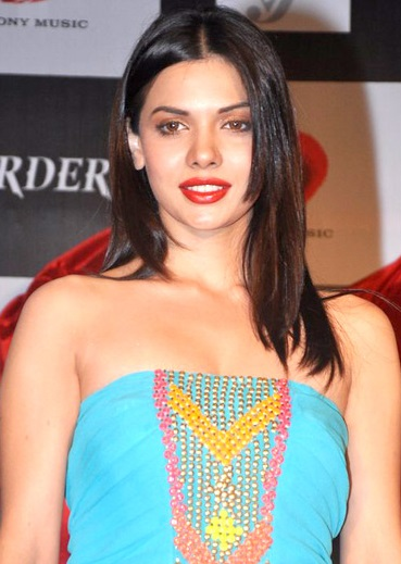 Sara Loren promoting MURDER 3